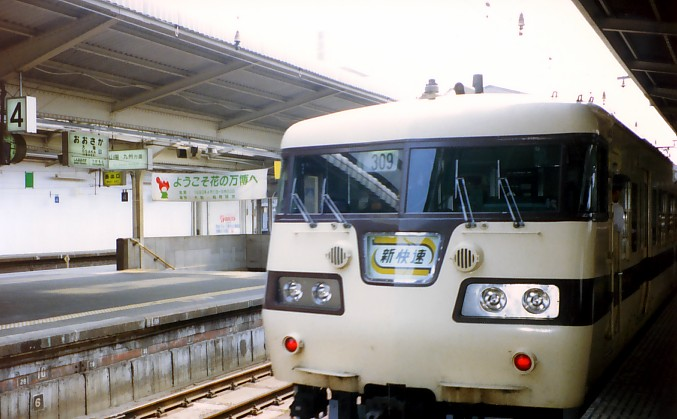 JR West 117 series EMU New Rapid (Shinkaisoku) train at Osaka Station.